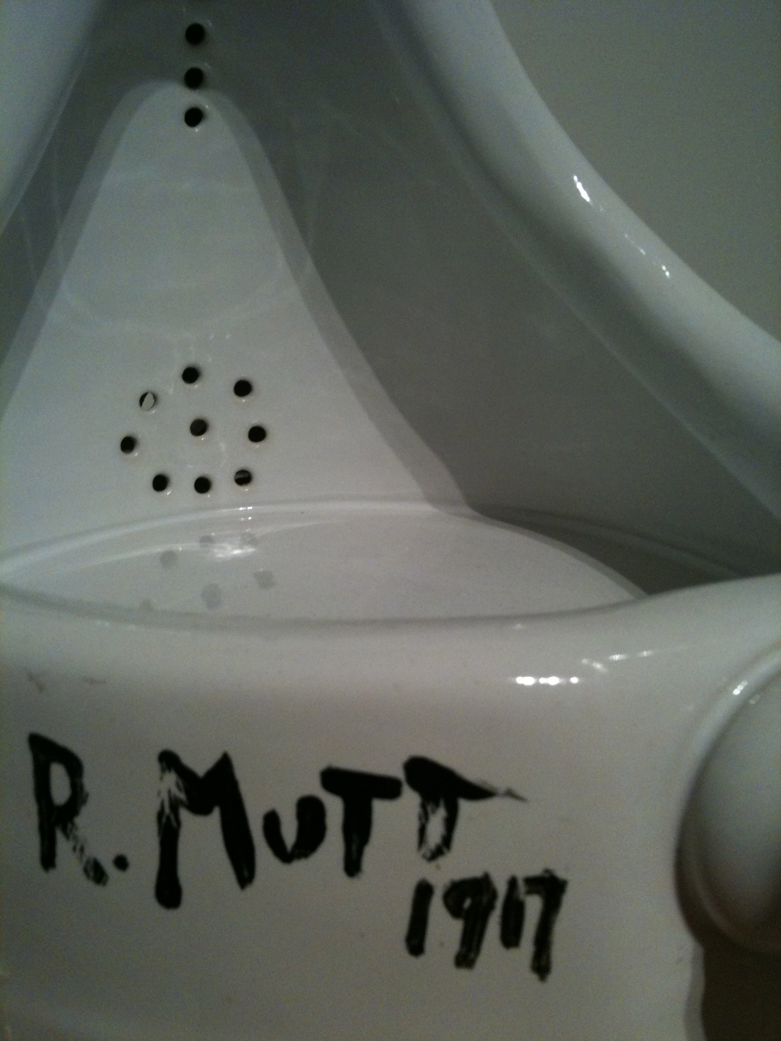 The forever famous Fountain